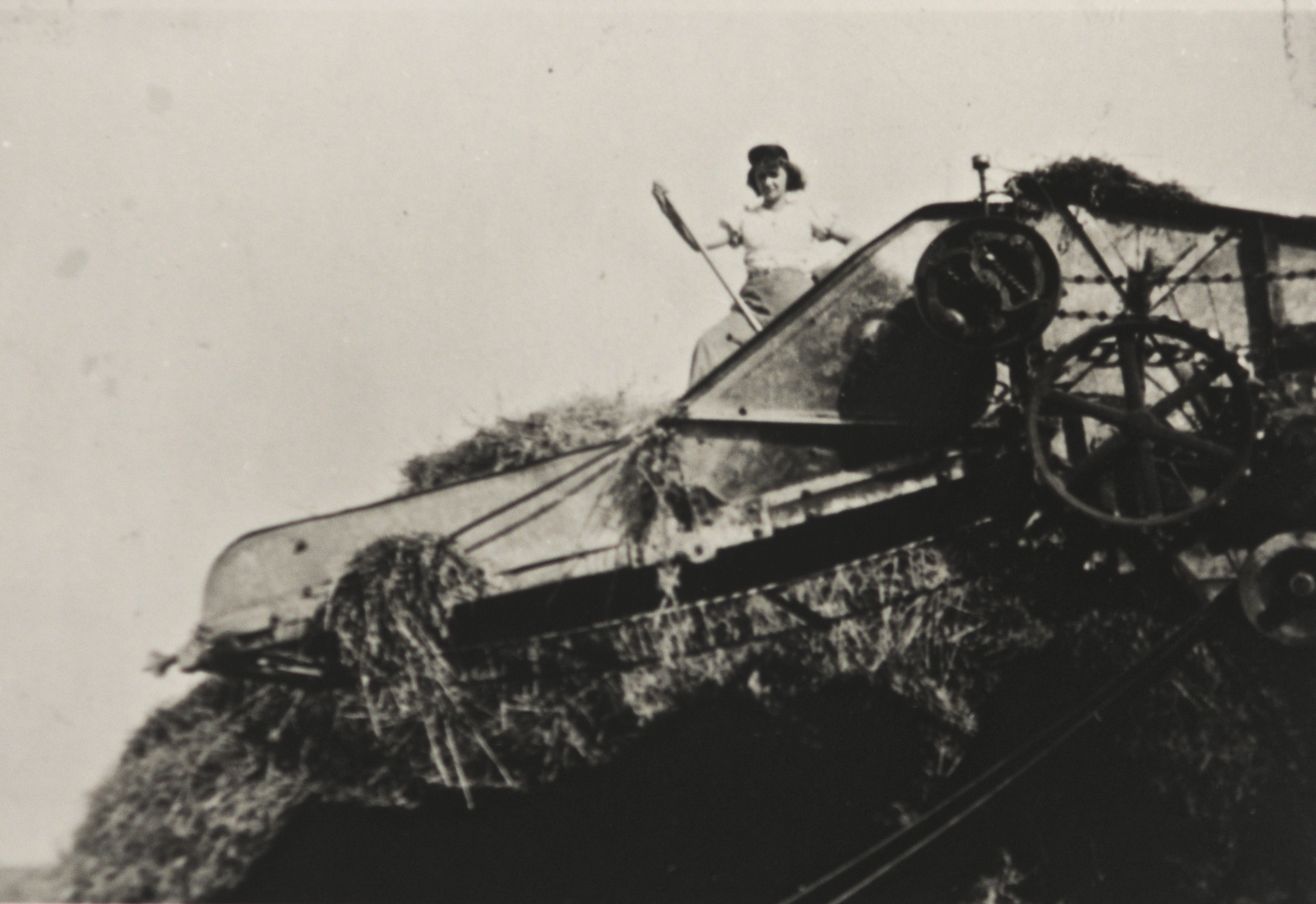 Archival Photo sourced from the Saskatchewan Archives Board. The Photo depicts an example of early harvesting equipment used in the area of Montmartre Saskatchewan.;Other information: Photo inscription reads: Bastien Fernande, French in Sask, Harvesting, RA19494